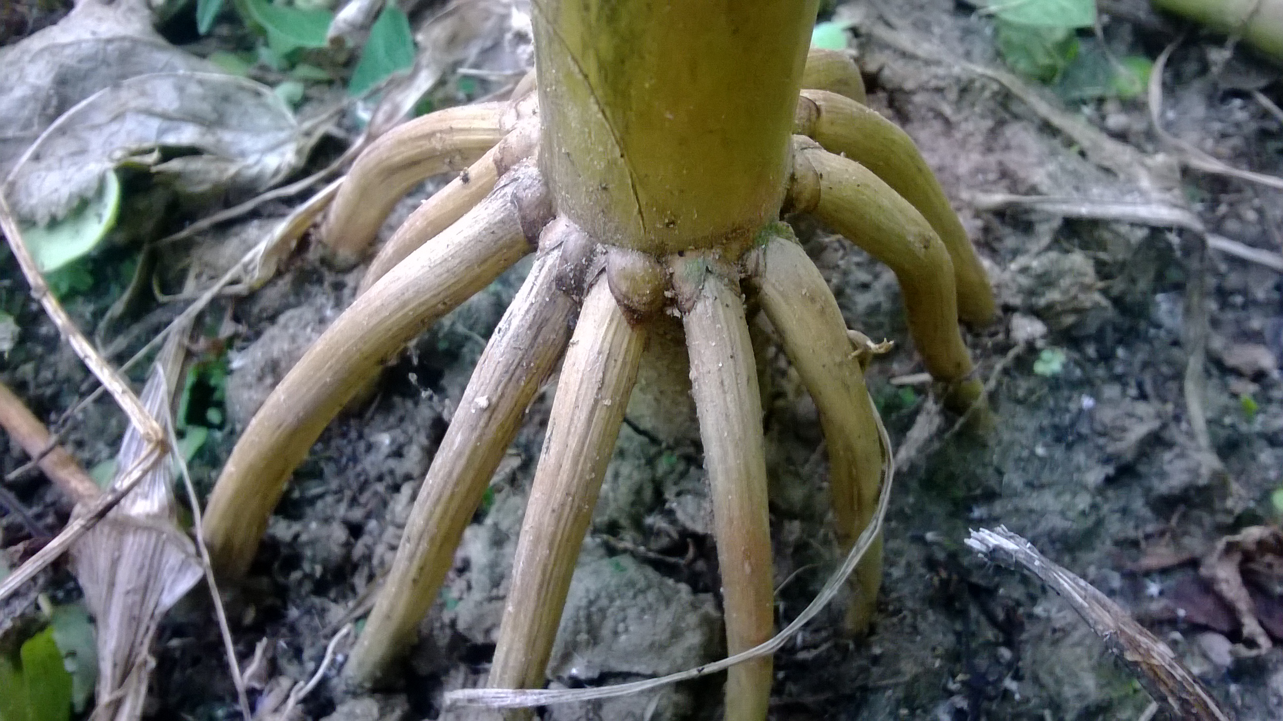 Prop roots of Maize plant in Panchkhal Valley.